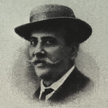 Charalmpis Anninos (1852-1934): Greek writer, poet and journalist